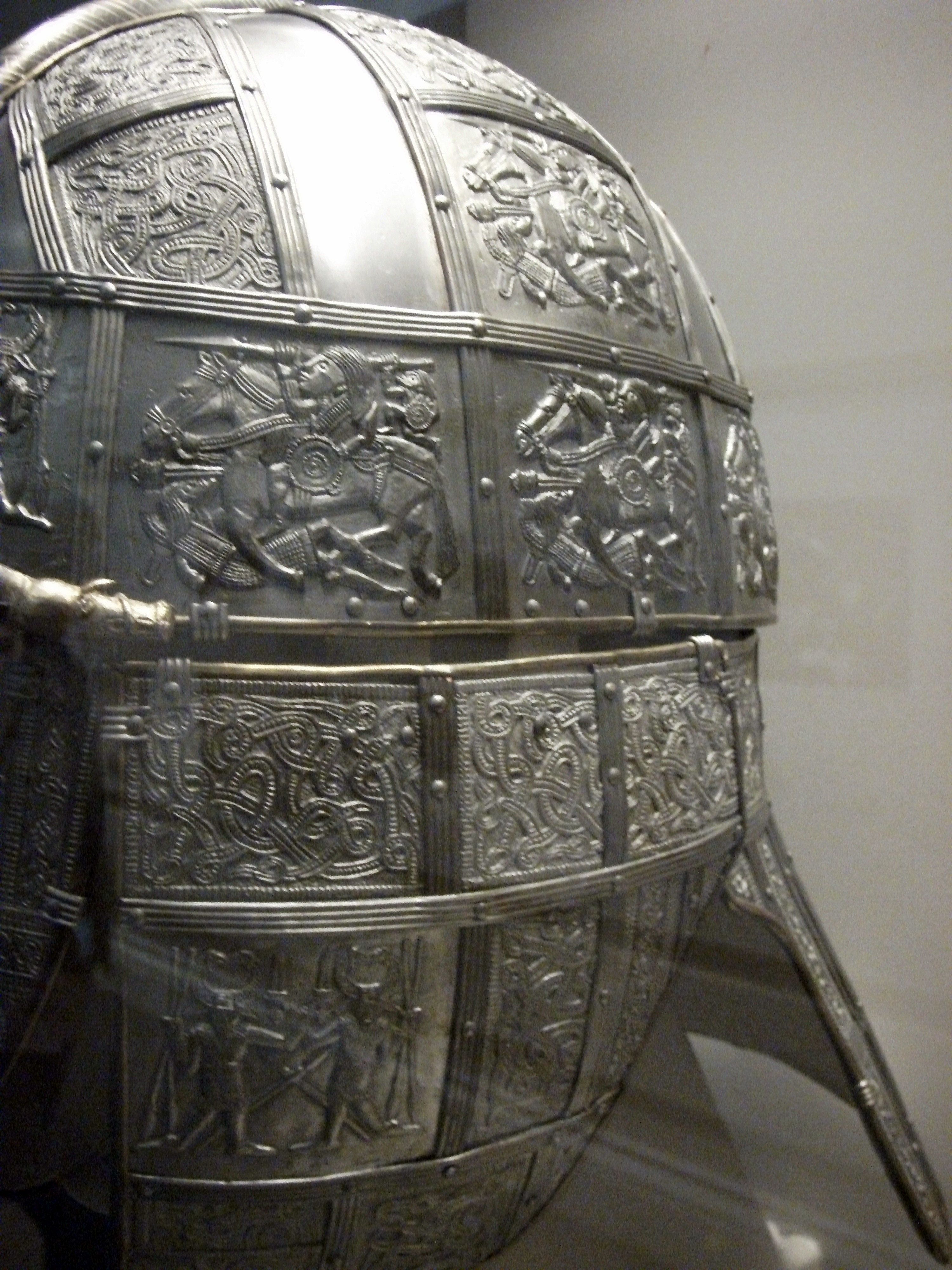 Detail of the replica of the Sutton Hoo helmet. British Museum